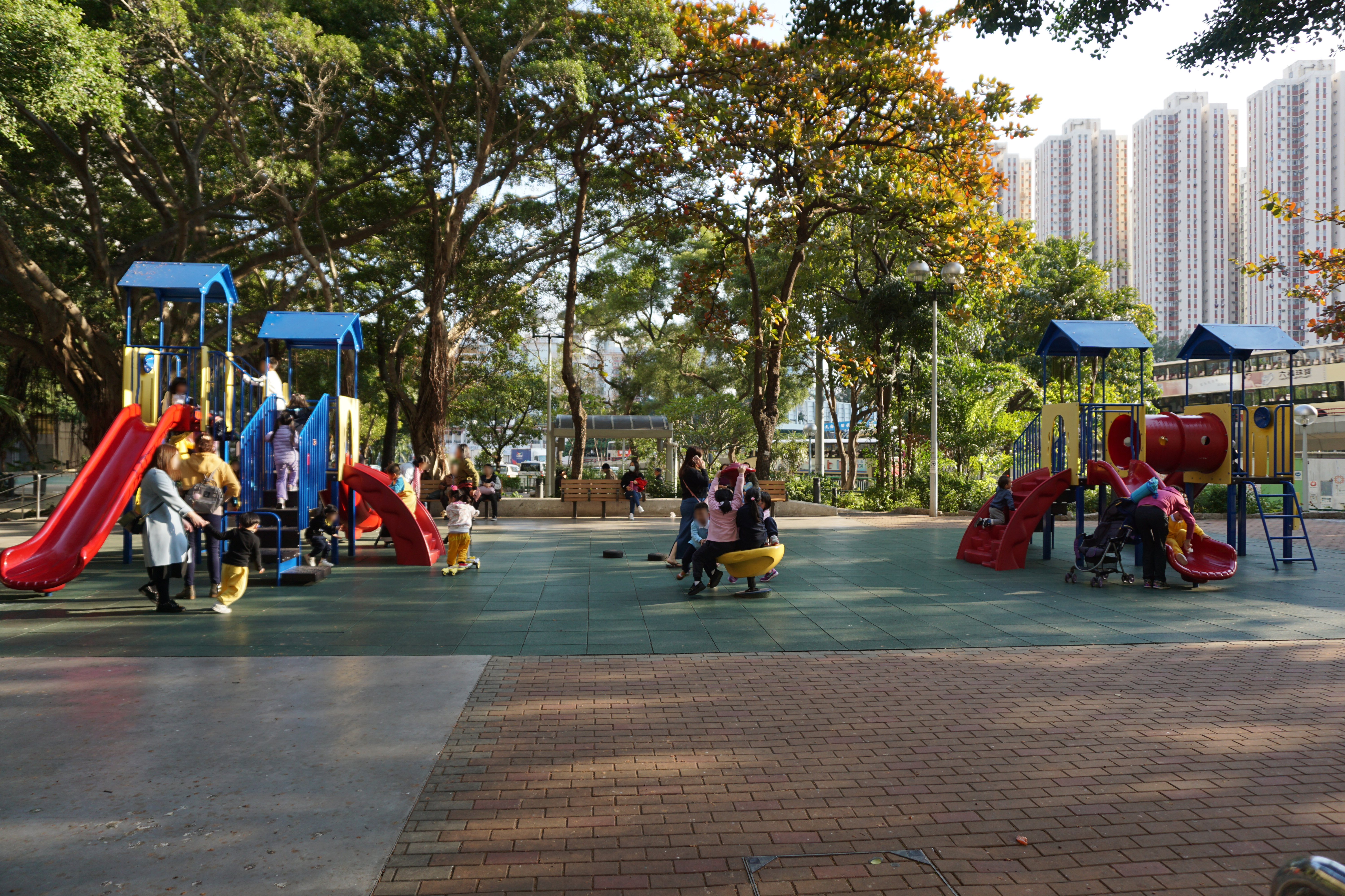 Ping Shek Estate in Choi Hung, Hong Kong.